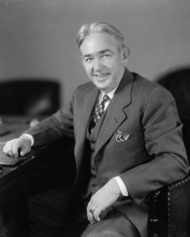 James Lindsay Almond, Jr. circa 1945 to 1949. He was a member of the U.S. House of Representatives from 1945 to 1949, Attorney General of Virginia from 1949 to 1958. He argued the state's case before the Supreme Court in Brown v. Board of Education. He was Governor of Virginia from 1958 to 1962. He was appointed to the United States Court of Customs and Patent Appeals in 1963, and reassigned to the United States Court of Appeals for the Federal Circuit as a senior judge in 1982.